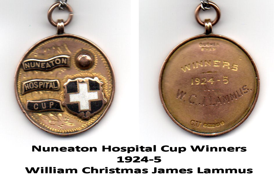 The 1924-5 Nuneaton Hospital Cup winners Medal. Awarded to William Christmas James Lammus